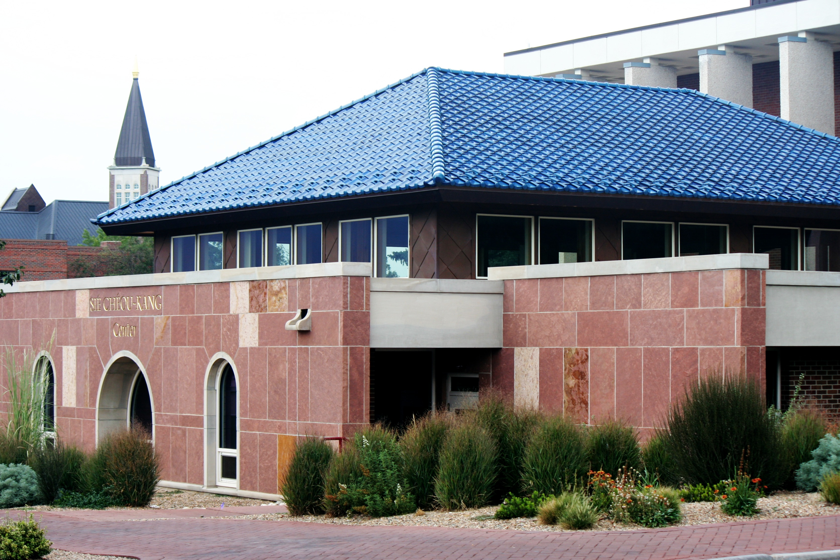 Outside of the Sié Chéou-Kang Center, part of the University of Denver's Josef Korbel School of International Studies.